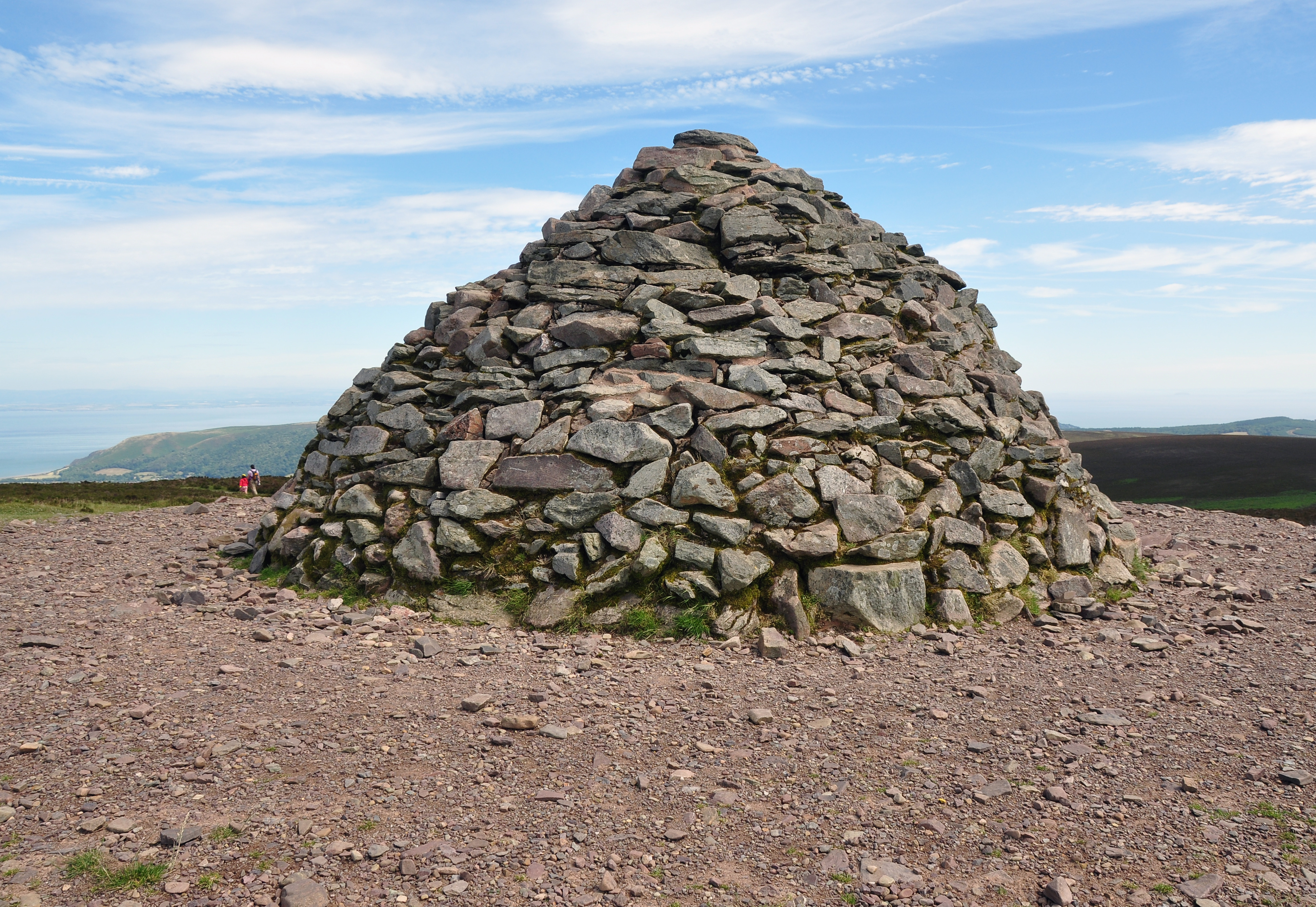 The cairn at the summit of Dunkery Beacon on Exmoor. Dunkery Beacon is the highest point in both Exmoor and Somerset.